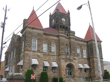 I took this photo of the Wetzel County Courthouse in New Martinsville, West Virginia, USA, on 2006-10-05.